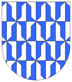 alternate vair File:Coa Illustration Tincture Vairy alternate.svg is a vector version of this file. It should be used in place of this raster image when not inferior. File:Spaltfeh.png File:Coa Illustration Tincture Vairy alternate.svg For more information, see Help:SVG.